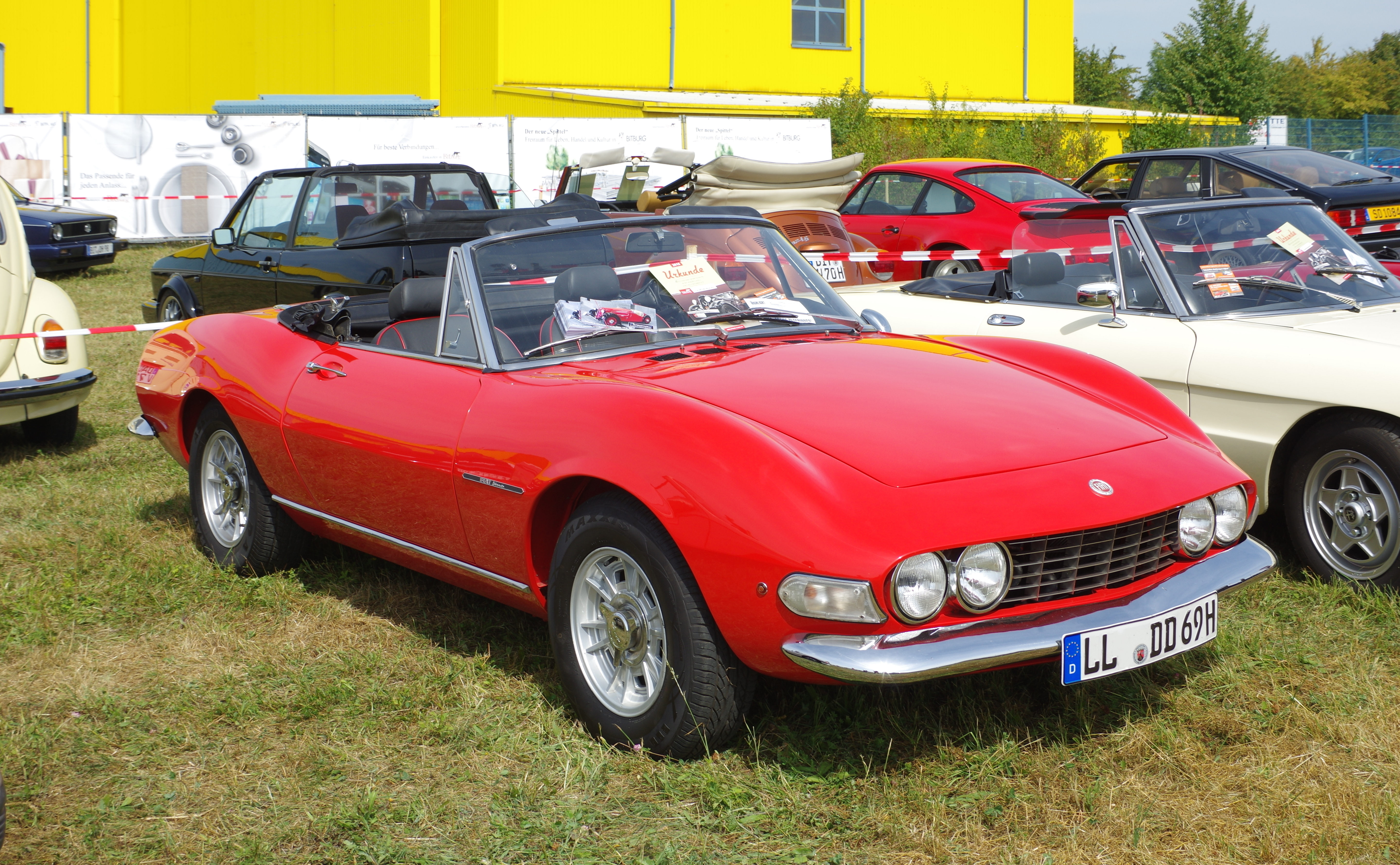 Fiat Dino , Bitburg Classic 2016